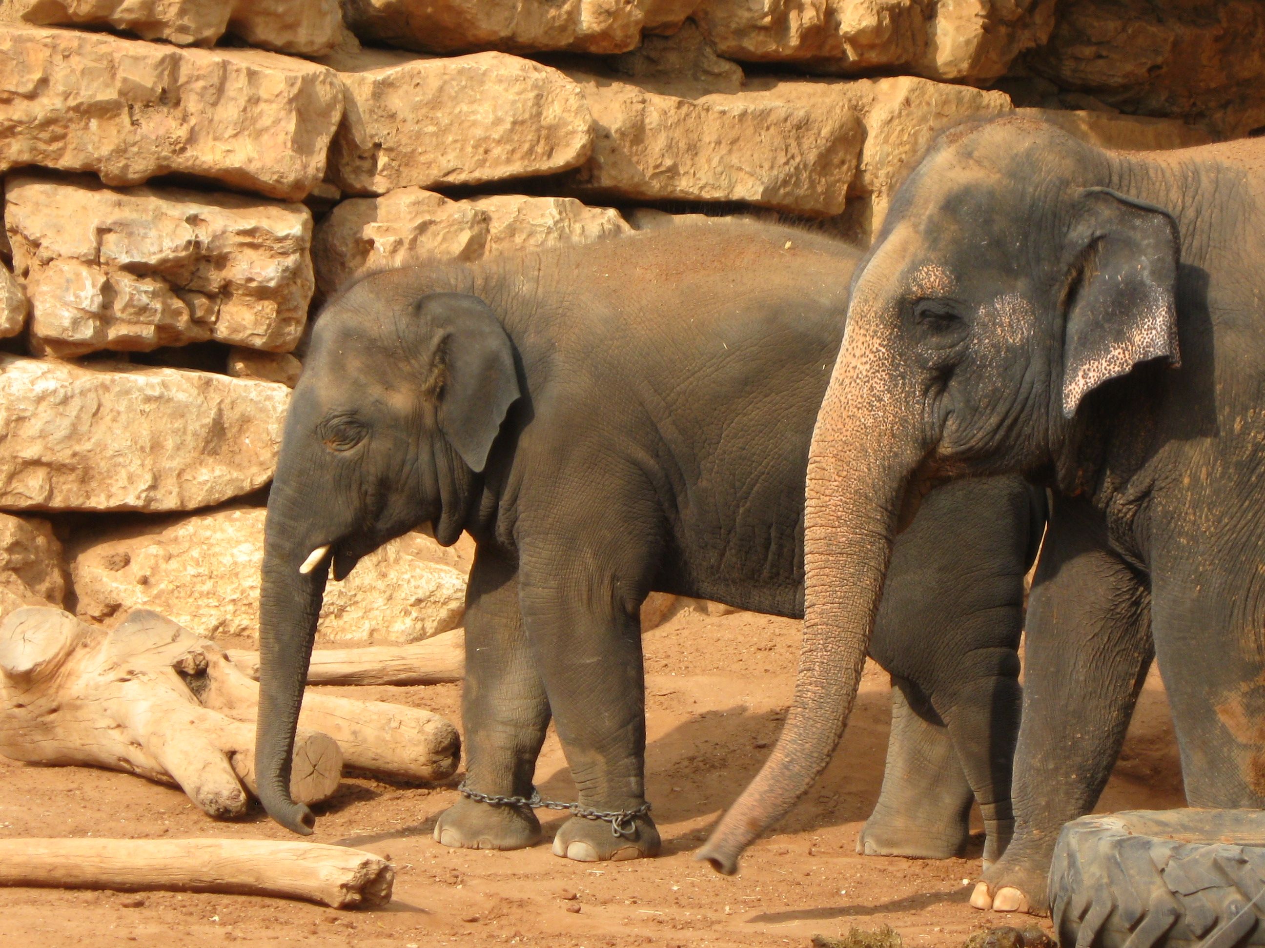 Gabi (left) and his mother Tamar (right) in the elephant enclosure at the Jerusalem Biblical Zoo, October 2009. Tamar is named in honor of Mayor Teddy Kollek's wife, Tamar.